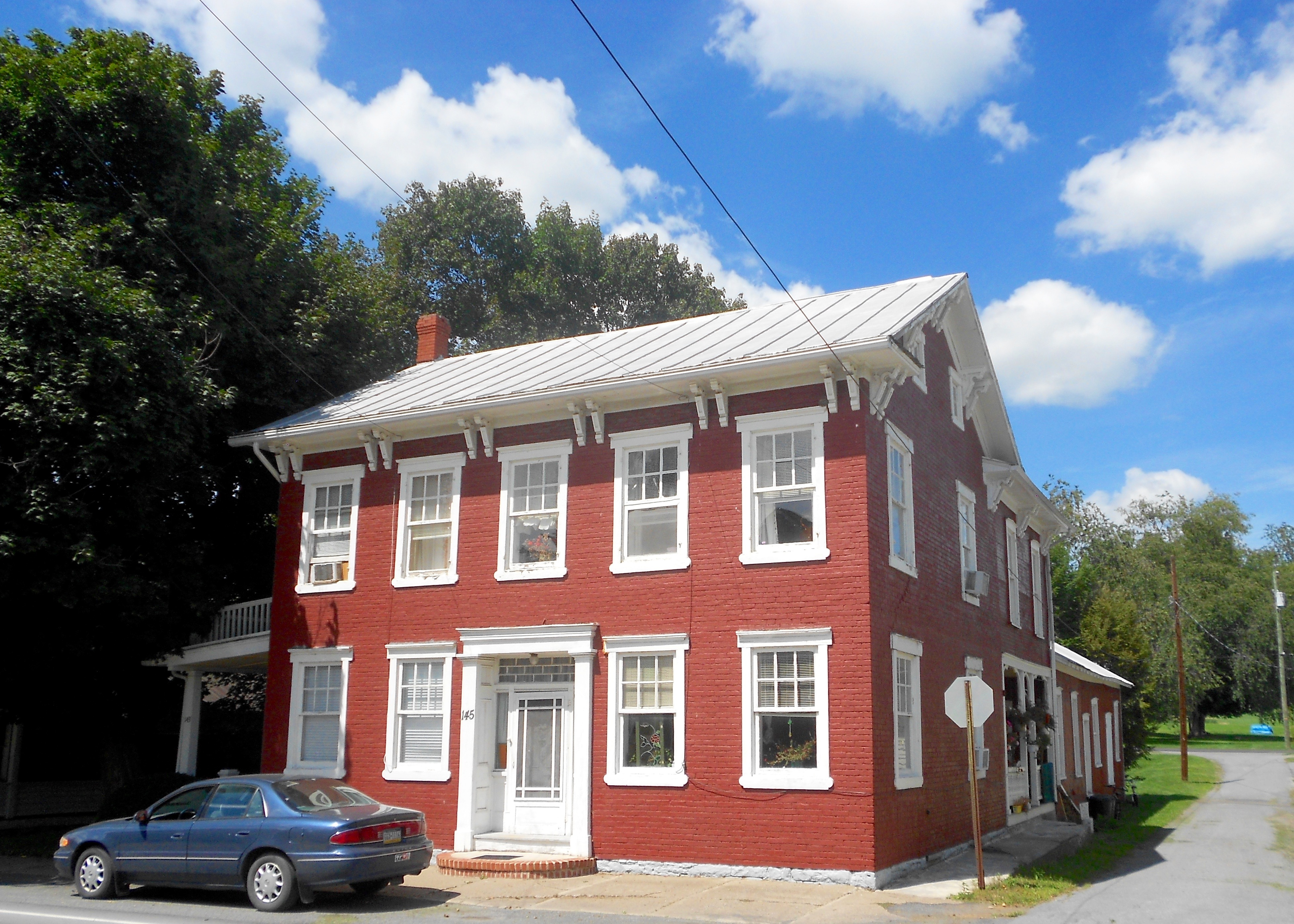 Part of the Rebersburg Historic District, listed on the NRHP on December 7, 1979 (#79002188), on Pennsylvania Route 192 in Rebersburg, Miles Township, Centre County, Pennsylvania.